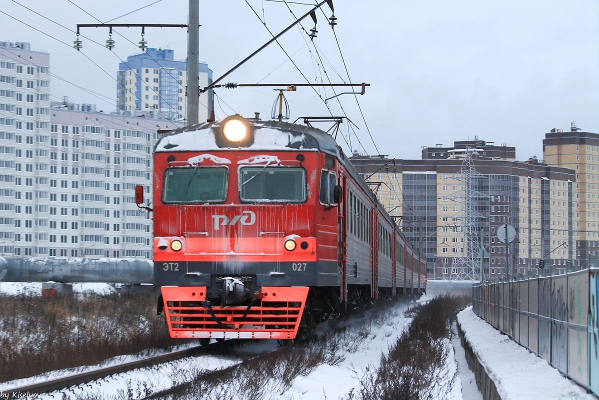 Electric train ET2L-027. Russia, Saint Petersburg, New Village - Lahta